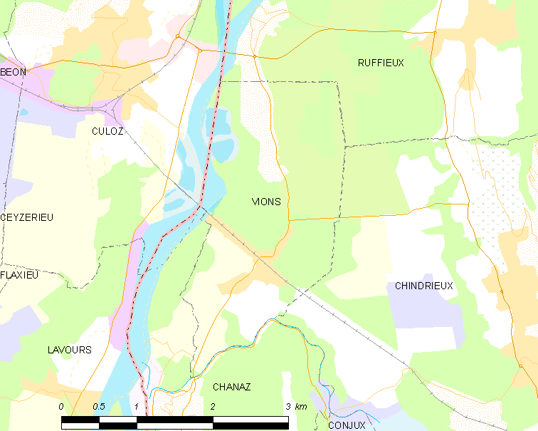 Map of French municipality Vions